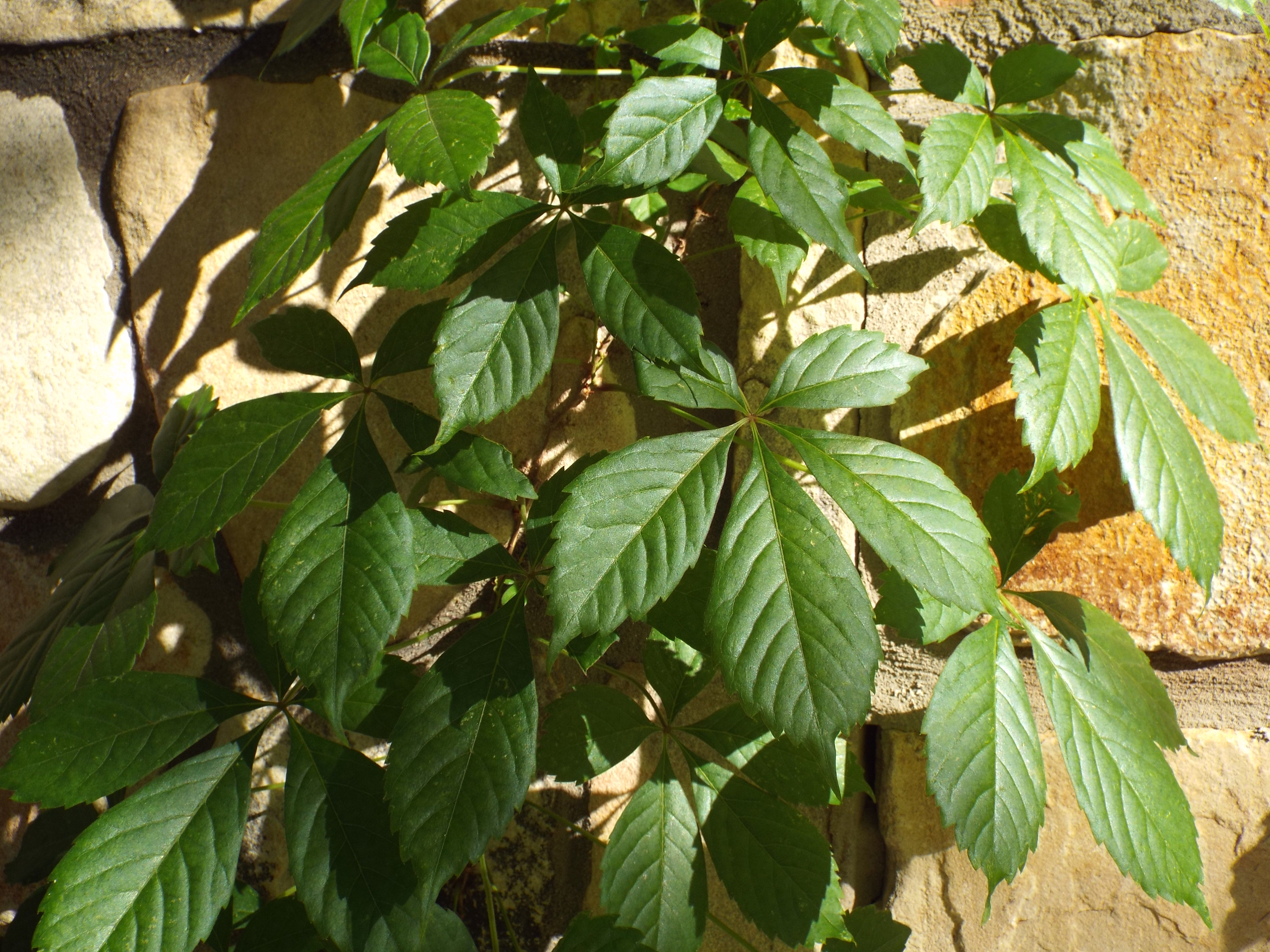 Vitaceae Parthenocissus quinquefolia found in Chattanooga, TN